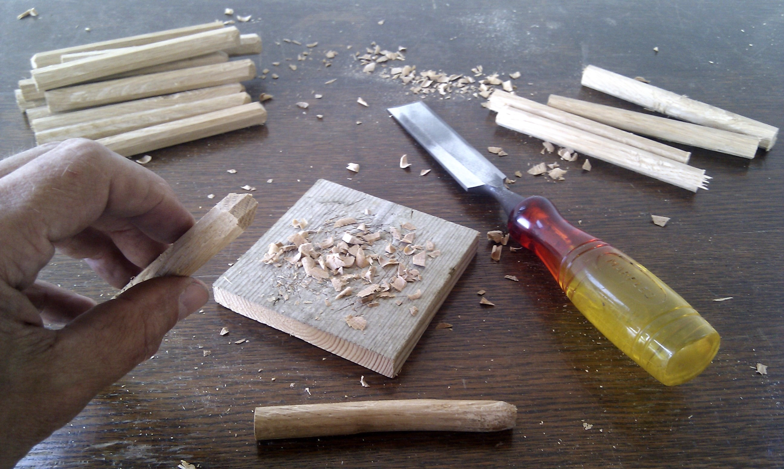 Oak trenails that will be used to pin a wooden structure together. The one in the front has been used and pulled, showing the way forces have permanently deformed the wood.